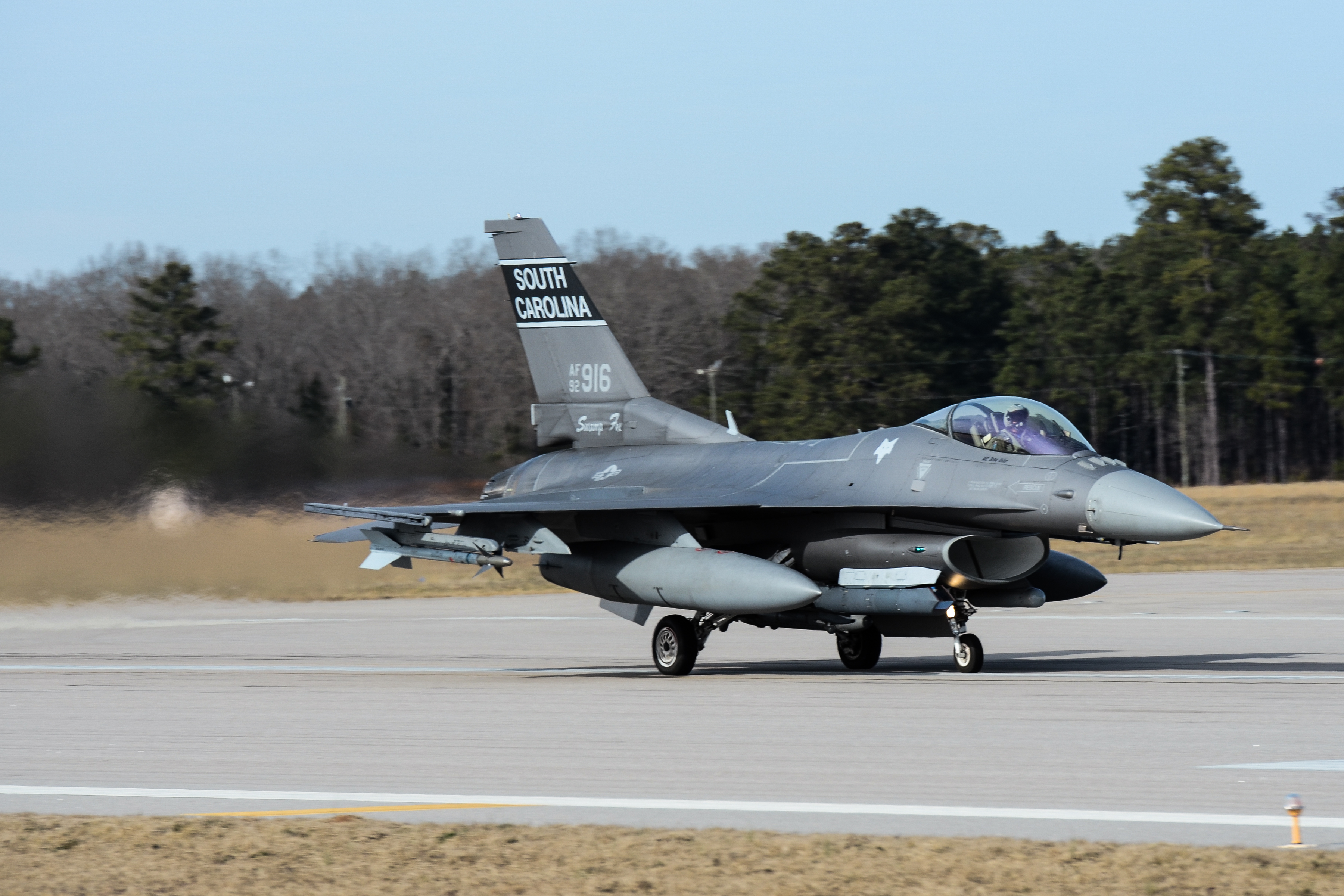 A U.S. Air Force fighter pilot with the 157th Fighter Squadron, South Carolina Air National Guard, launches an F-16 Fighting Falcon for a training mission from McEntire Joint National Guard Base, Feb. 6, 2015. (U.S. Air National Guard photo by Tech. Sgt. Caycee Watson/Released)